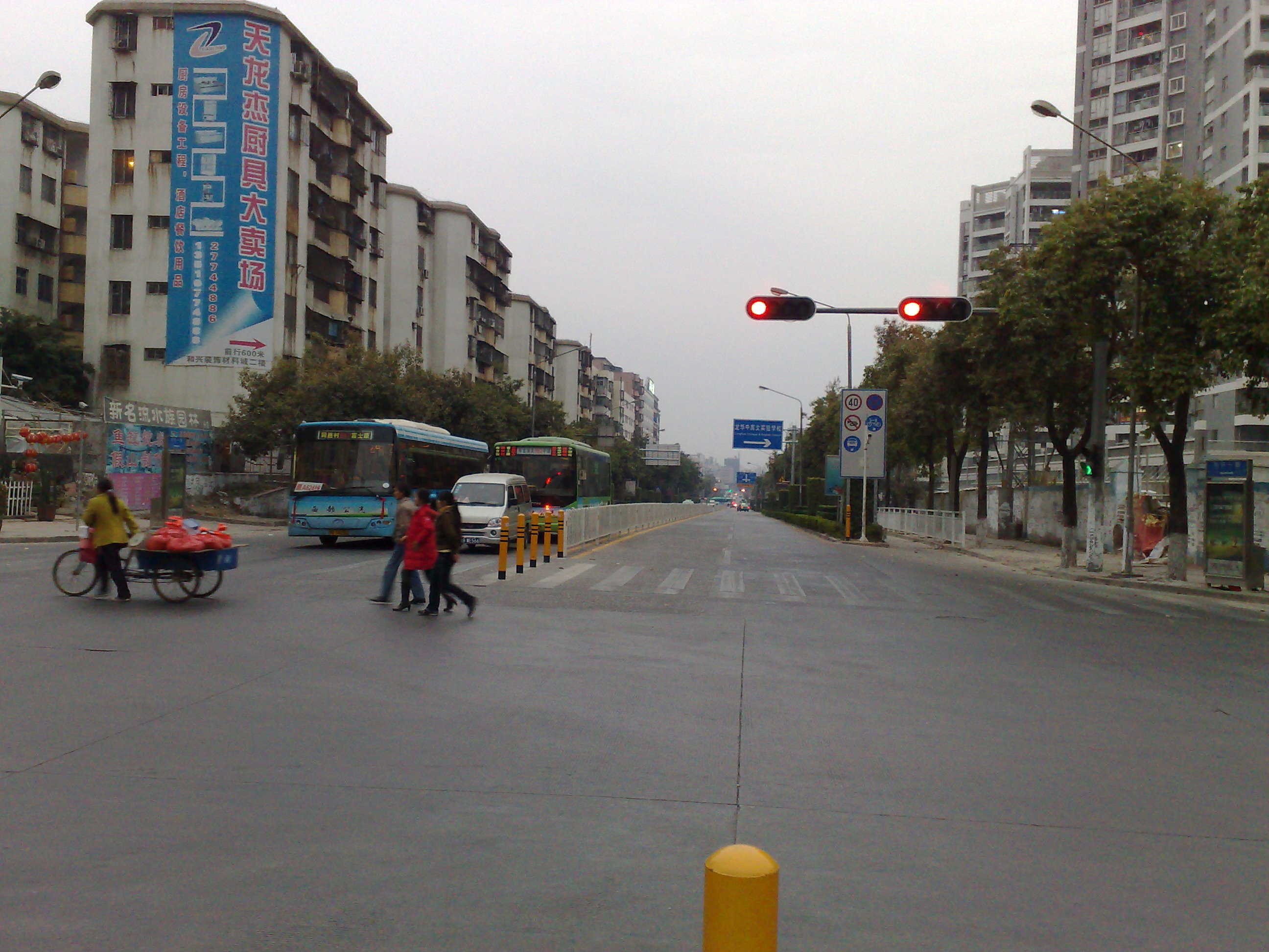 A street in Long Hua Subdistrict